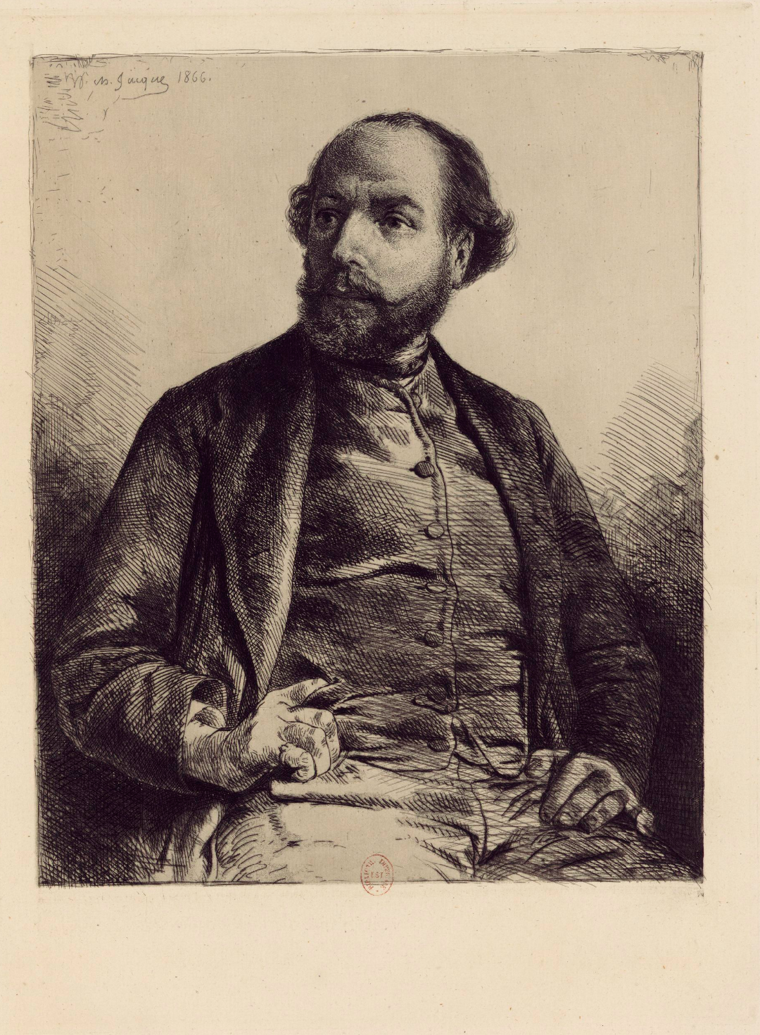 Jules Luquet, co-gérant [with Alfred Cadart] de la Société des aquafortistes, etching by Charles-Émile Jacque.